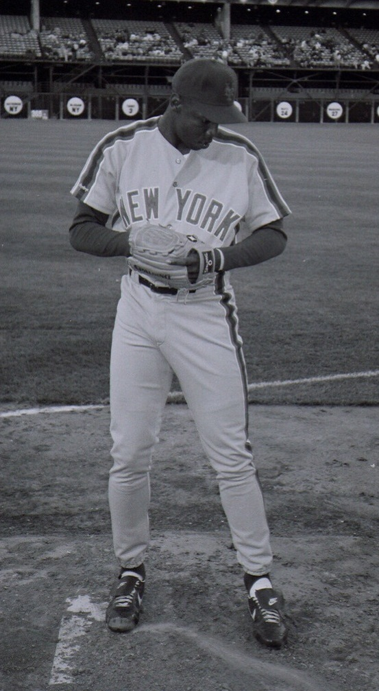 Dwight Gooden at Candlestick Park in San Francisco, CA